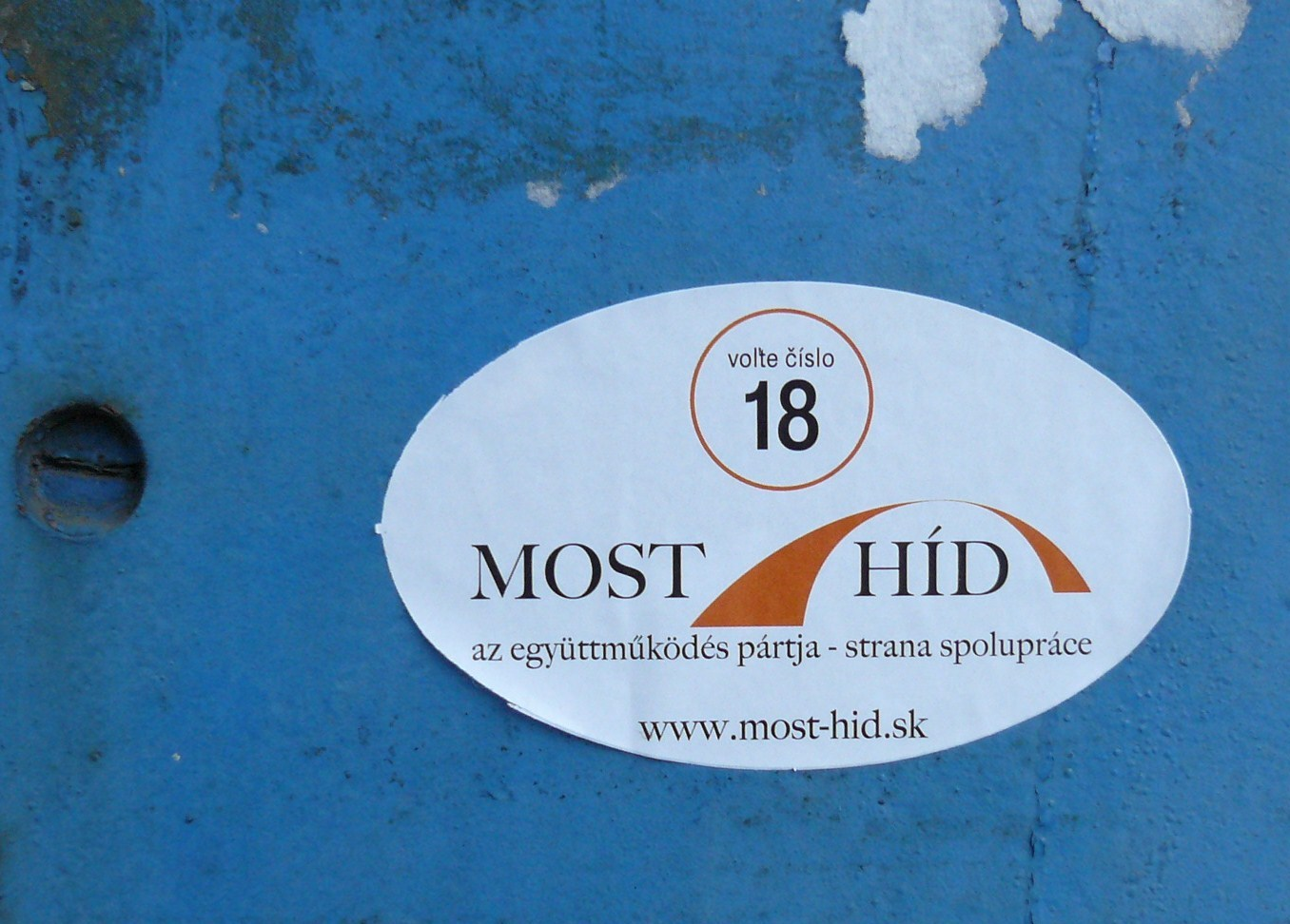 Most-Hid party in Slovakia.